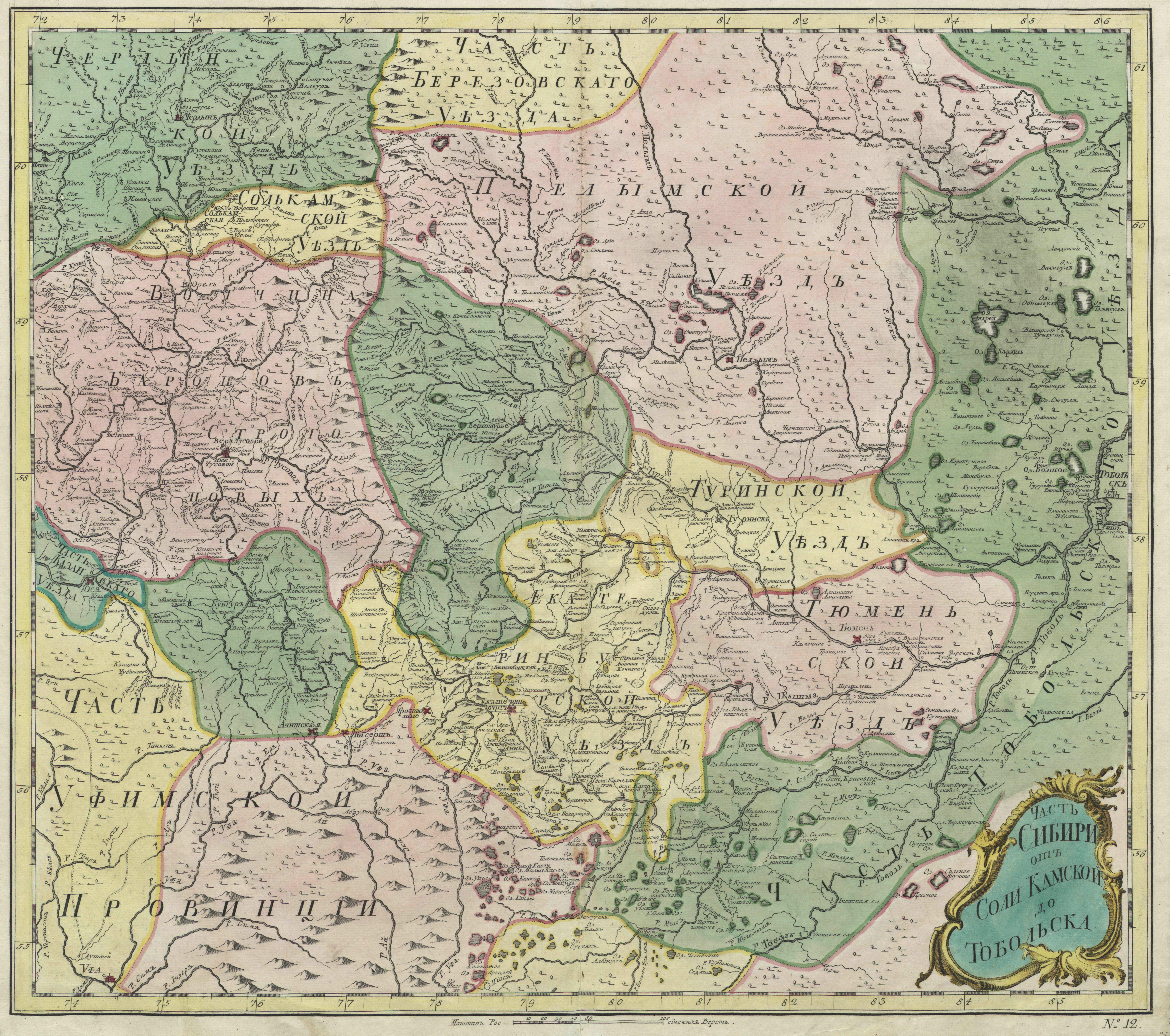 First official geographic atlas of the Russian Empire (1745). Part of Siberia from Solikamsk to Tobolsk.